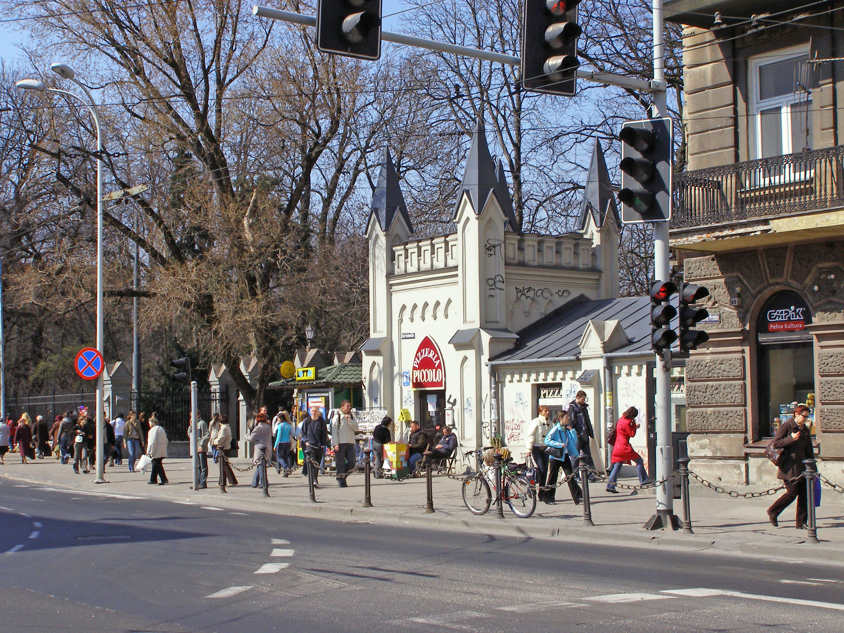 Krakowskie Przedmiescie Street in Lublin.